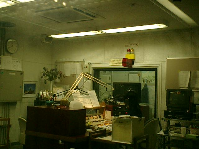 FM HANAKO Community FM-Radio Station at Moriguchi City, Osaka Prefecture